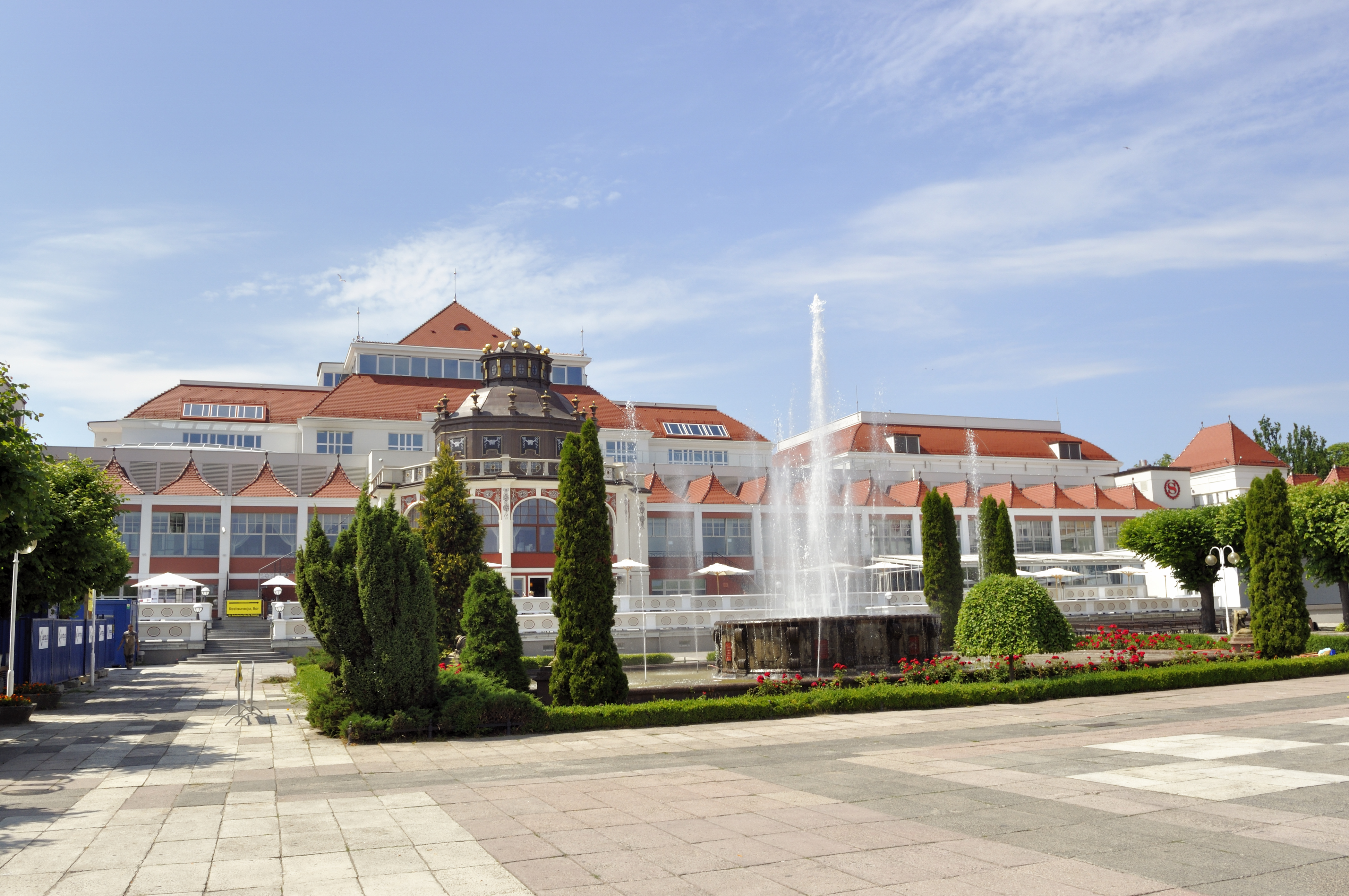 Picture taken in Sopot after Wikimania 2010 conference.